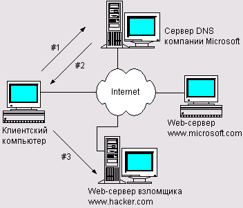 DoS and DNS